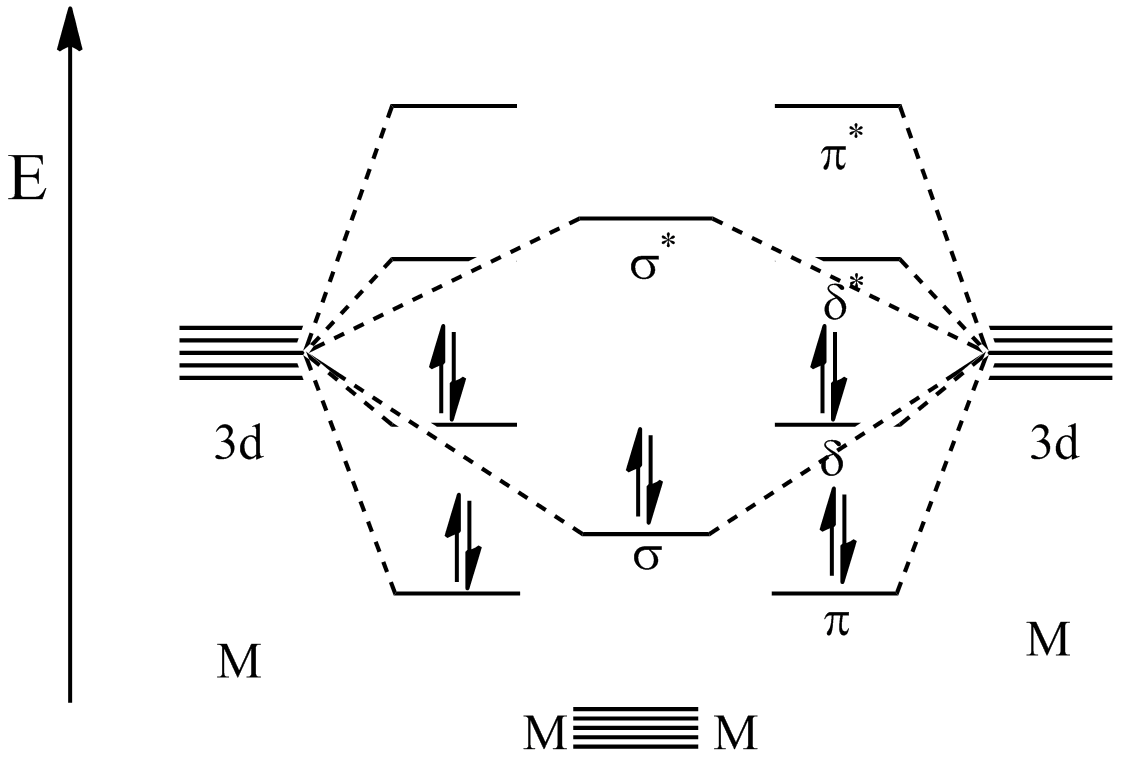 MO diagram of metal-metal d-orbital mixing to make quintuple bond.